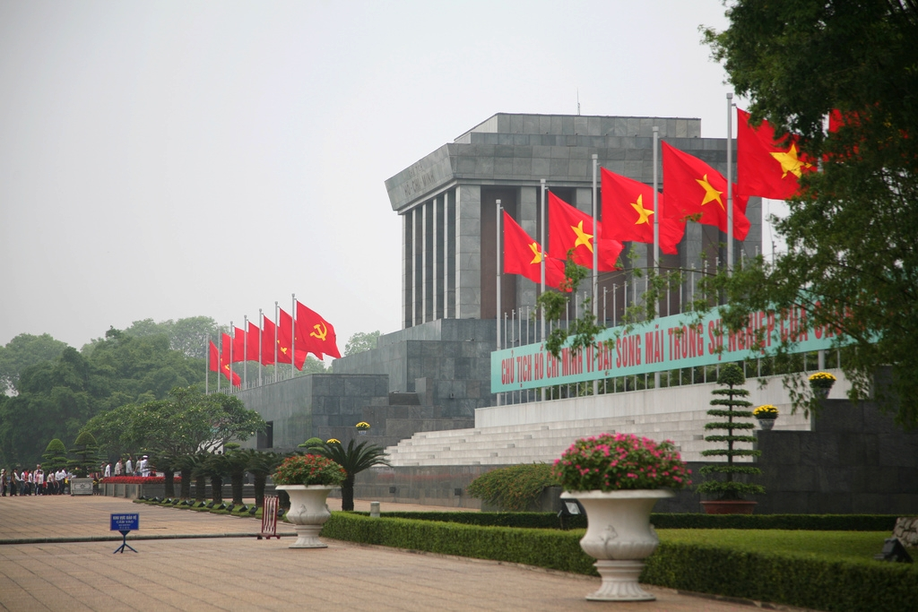 Ho Chi Minh Mausoleum